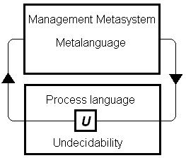 Beer Meta language. Derived from "Platform for Change" by Stafford Beer (1975)